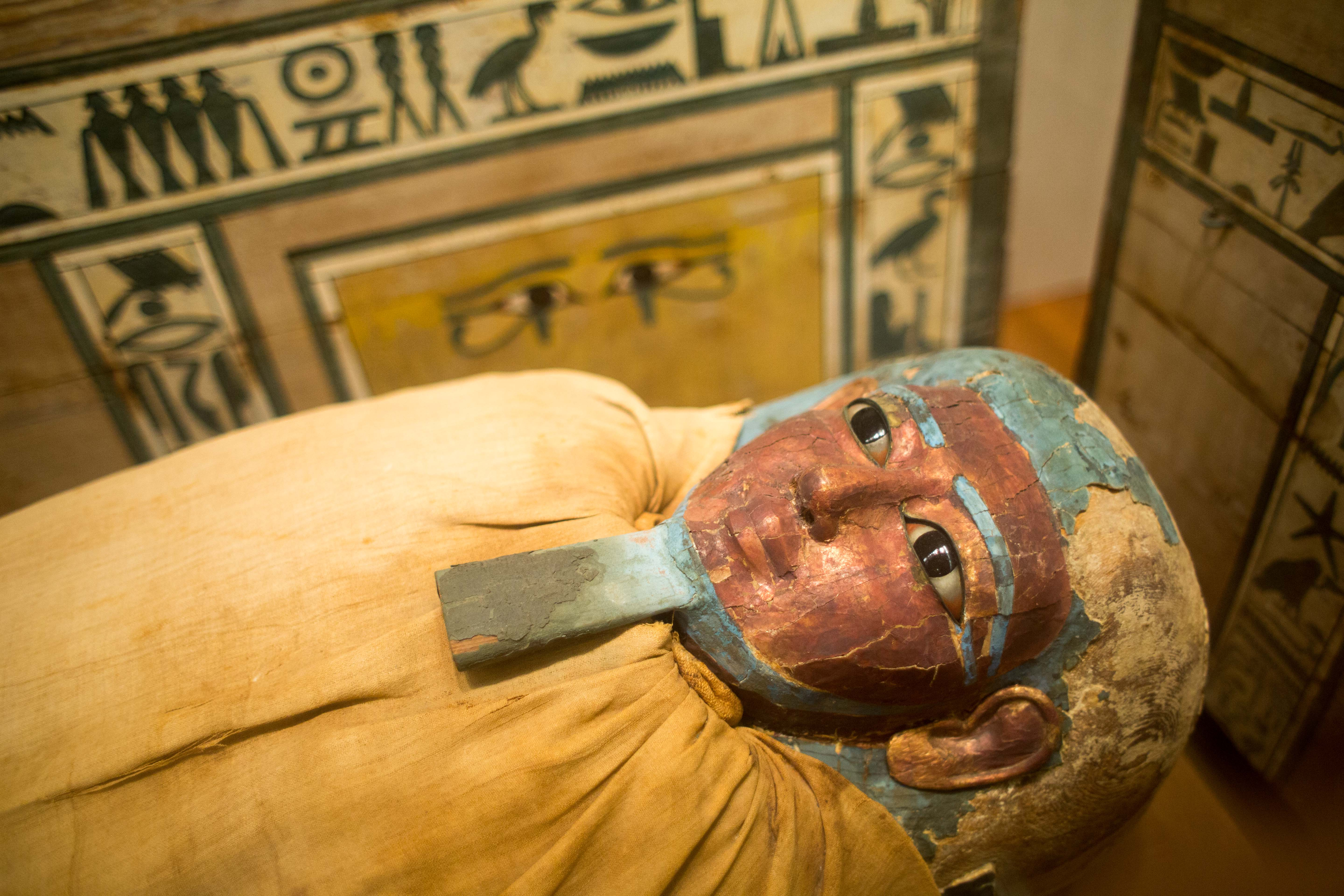 Mummy of Ukhhotep, Metropolitan Museum of Art, NYC